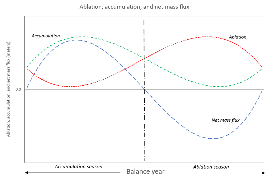 Graph showing schematically the accumulation, ablation, and net mass flux (sum of the first two) for a glacier over a balance year. Redrawn from Knight, Peter (1999). Glaciers. Cheltenham, UK: Stanley Thornes. p. 25.